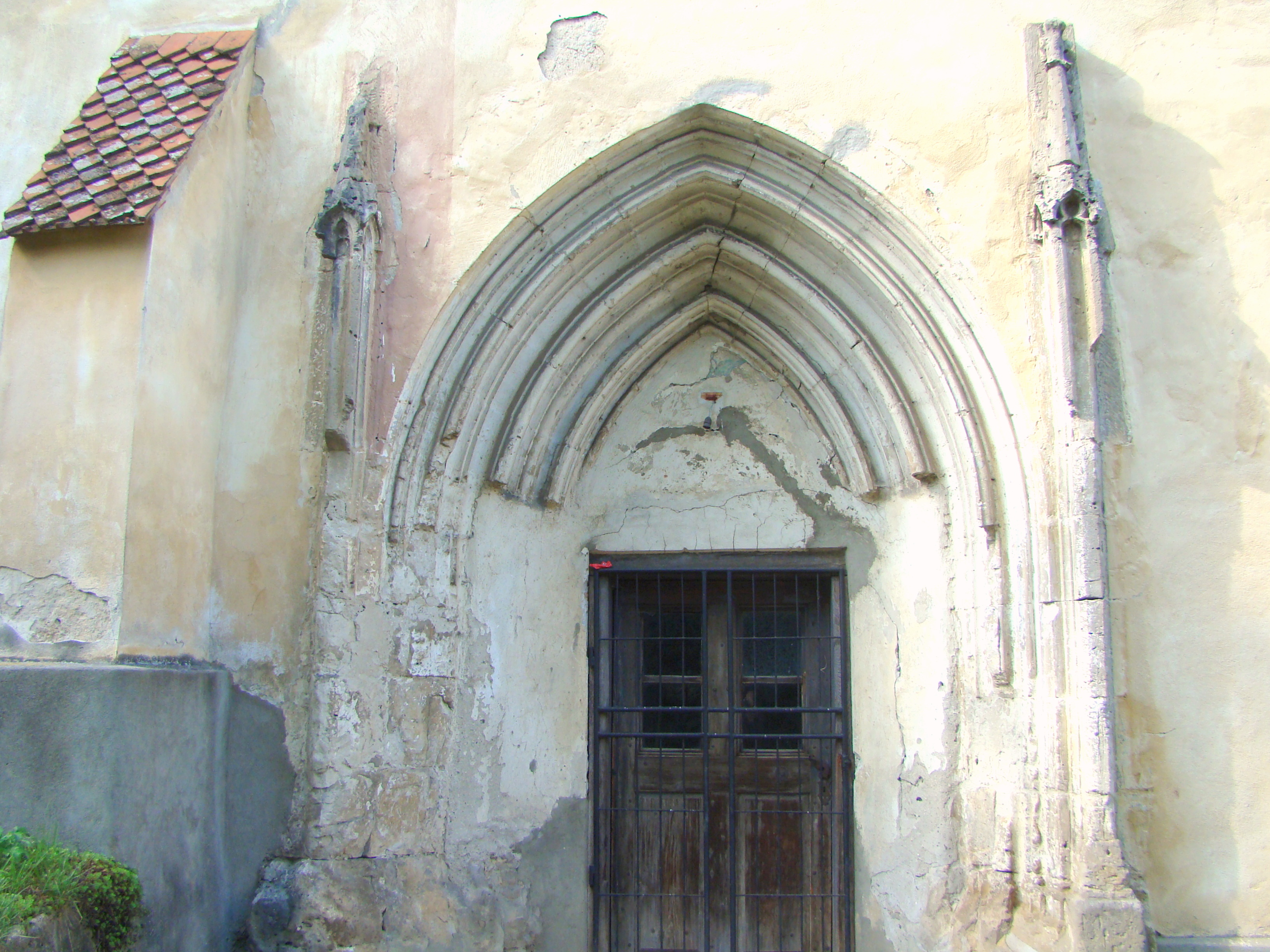 Fortified church in Măieruș, Brașov County, Romania